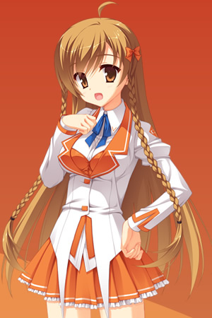 Mirai Suenaga in her winter school uniform by Kobuichi from Yuzusoft.